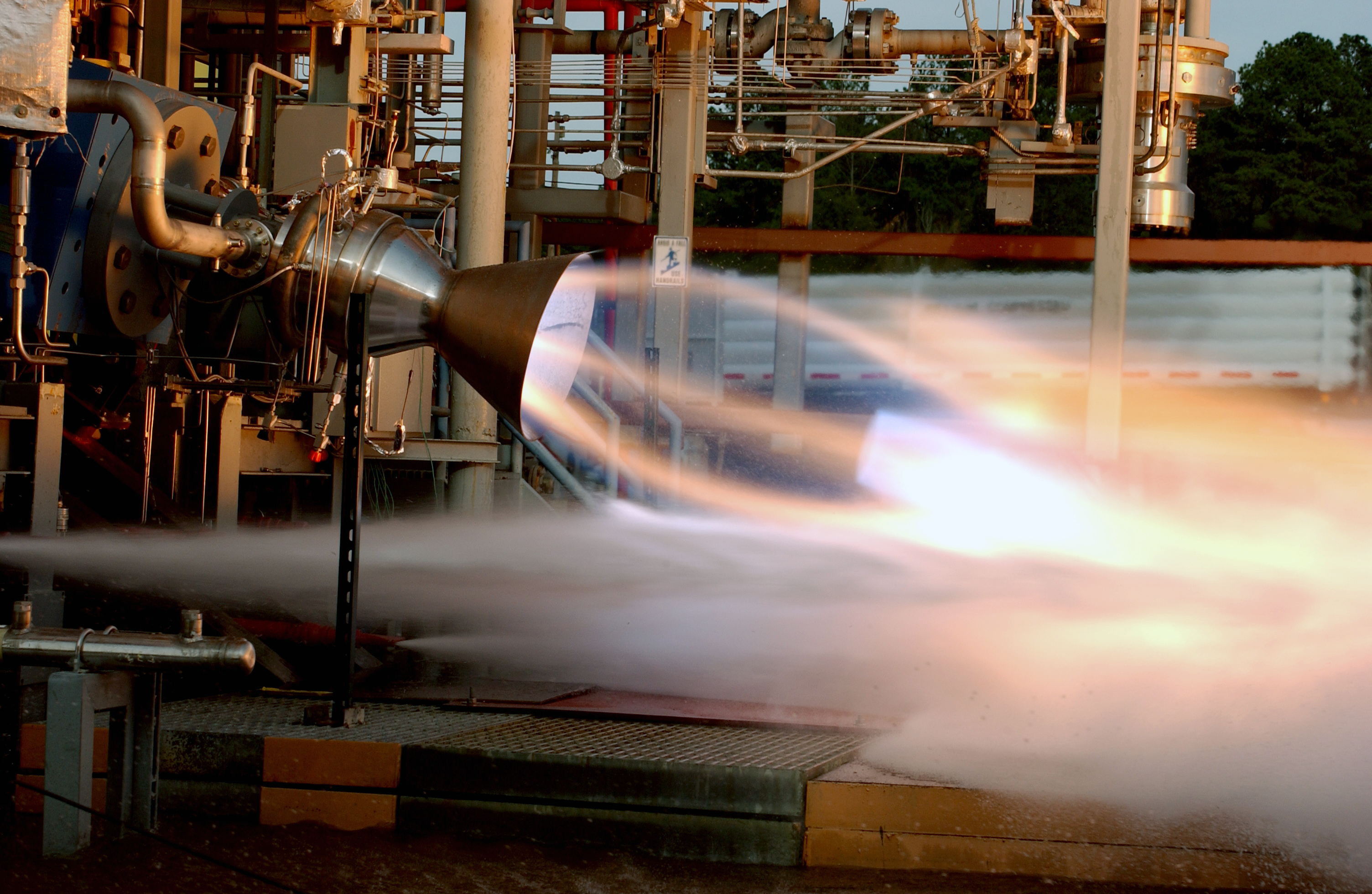 In this photo, an RS-88 development rocket engine is being test fired at NASA's Marshall Space Flight Center in Huntsville, Alabama, in support of the Pad Abort Demonstration (PAD) test flights for NASA's Orbital Space Plane (OSP). The tests could be instrumental in developing the first crew launch escape system in almost 30 years. Paving the way for a series of integrated PAD test flights, the engine tests support development of a system that could pull a crew safely away from danger during liftoff. A series of 16 hot fire tests of a 50,000-pound thrust RS-88 rocket engine were conducted, resulting in a total of 55 seconds of successful engine operation. The engine is being developed by the Rocketdyne Propulsion and Power unit of the Boeing Company. Integrated launch abort demonstration tests in 2005 will use four RS-88 engines to separate a test vehicle from a test platform, simulating pulling a crewed vehicle away from an aborted launch. Four 156-foot parachutes will deploy and carry the vehicle to landing. Lockheed Martin is building the vehicles for the PAD tests. Seven integrated tests are planned for 2005 and 2006.